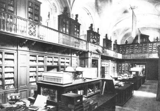 Interior of the Zamoyski Estate Library in a building at Żabia Street in Warsaw.[1] Burned down in September, 1939 as a result of severe aerial bombardment by the Germans (incendiary bombing).[1] The surviving collection was later deliberately burned by the Germans in September 1944.[1]